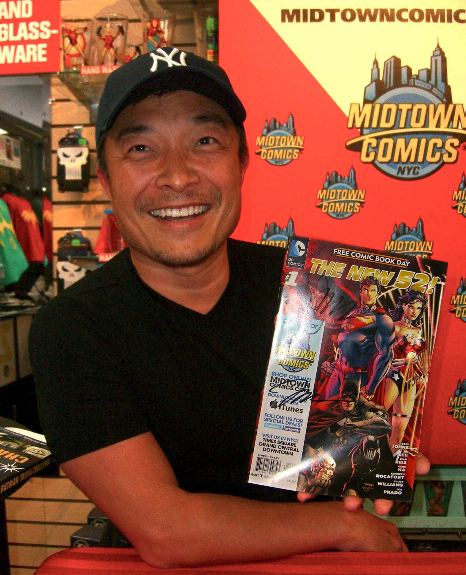 Comic book artist Jim Lee at a May 11, 2012 signing at Midtown Comics Downtown in Lower Manhattan for Justice League Vol. 1: Origin, the hardcover collection of the first six-issue story arc of Justice League volume 2, the monthly series whose debut in September 2011 initiated the company-wide relaunch of all of DC Comics' superhero titles known as The New 52. In the photo, Lee is holding up a copy of DC Comics: The New 52 FCBD Special Edition that he has signed. This photo was created by Luigi Novi. It is not in the public domain, and use of this file outside of the licensing terms is a copyright violation.